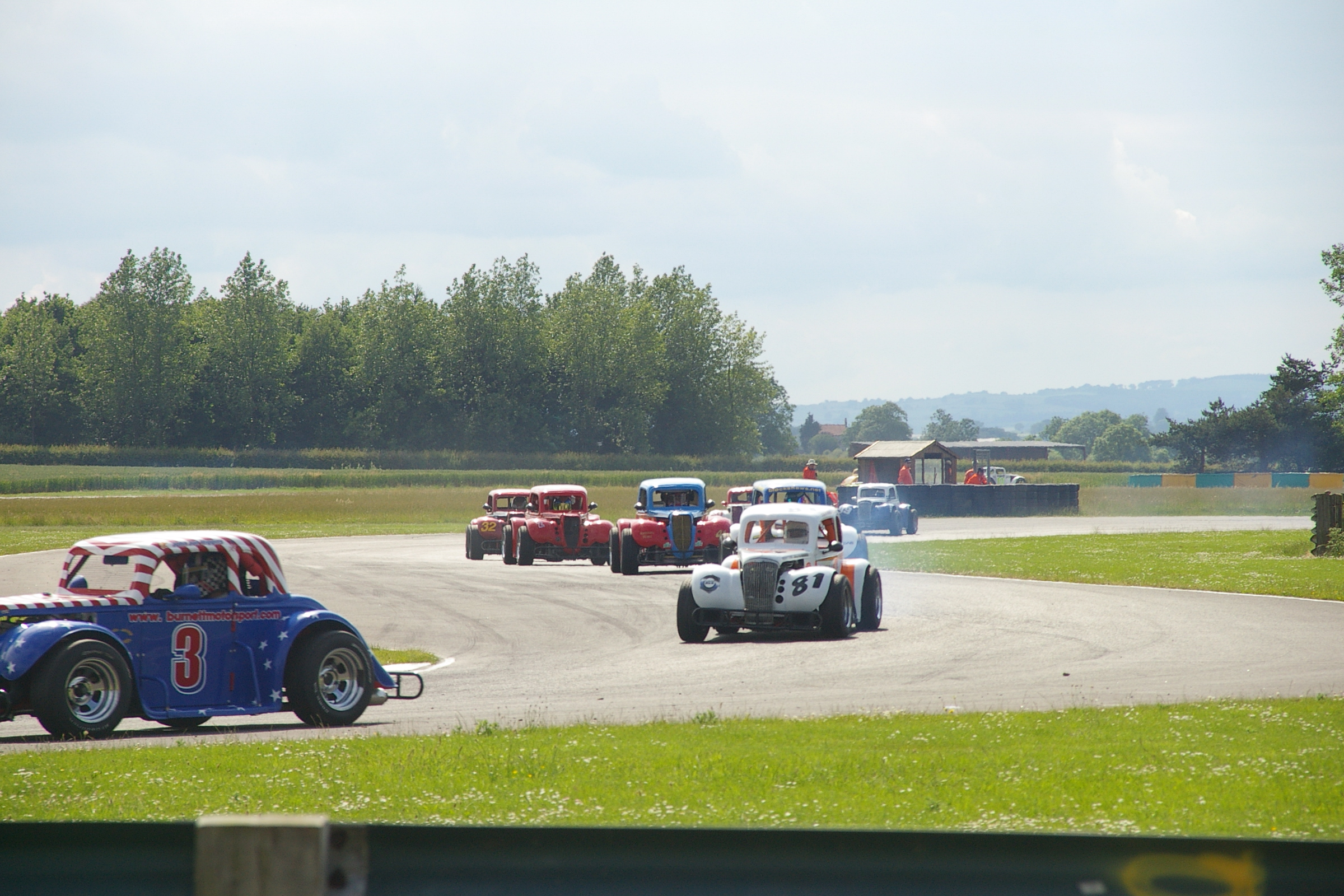 The penultimate corner of Croft Circuit